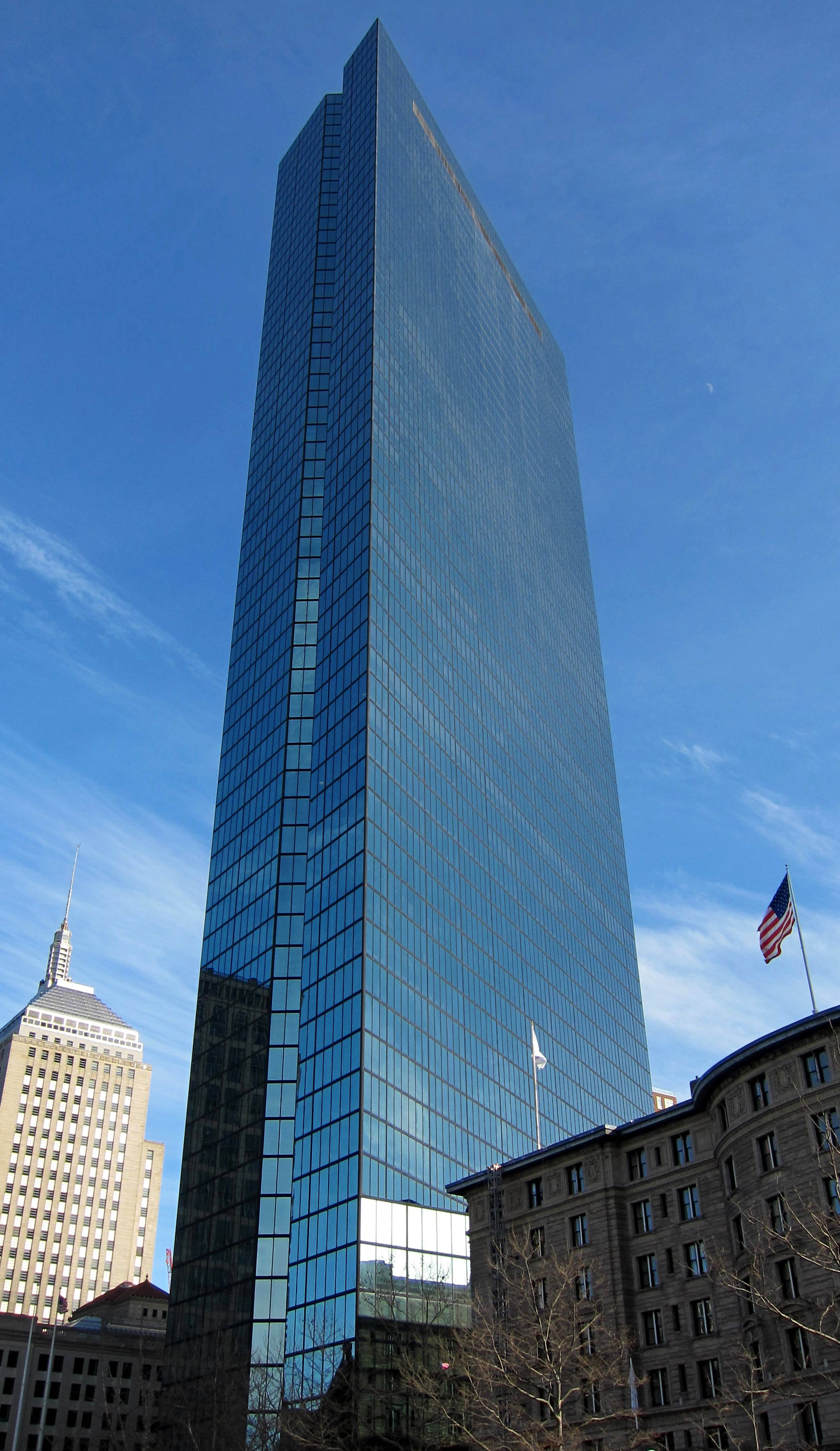 John Hancock Tower, Boston, U.S